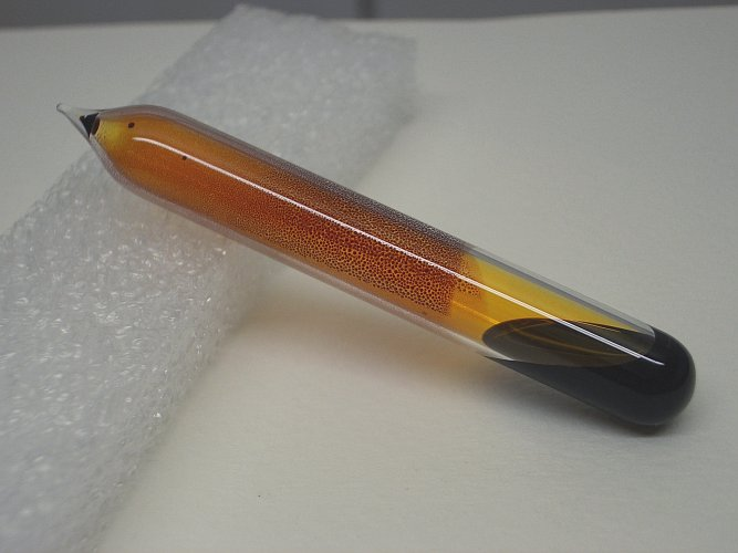 Bromine in a sealed ampoule